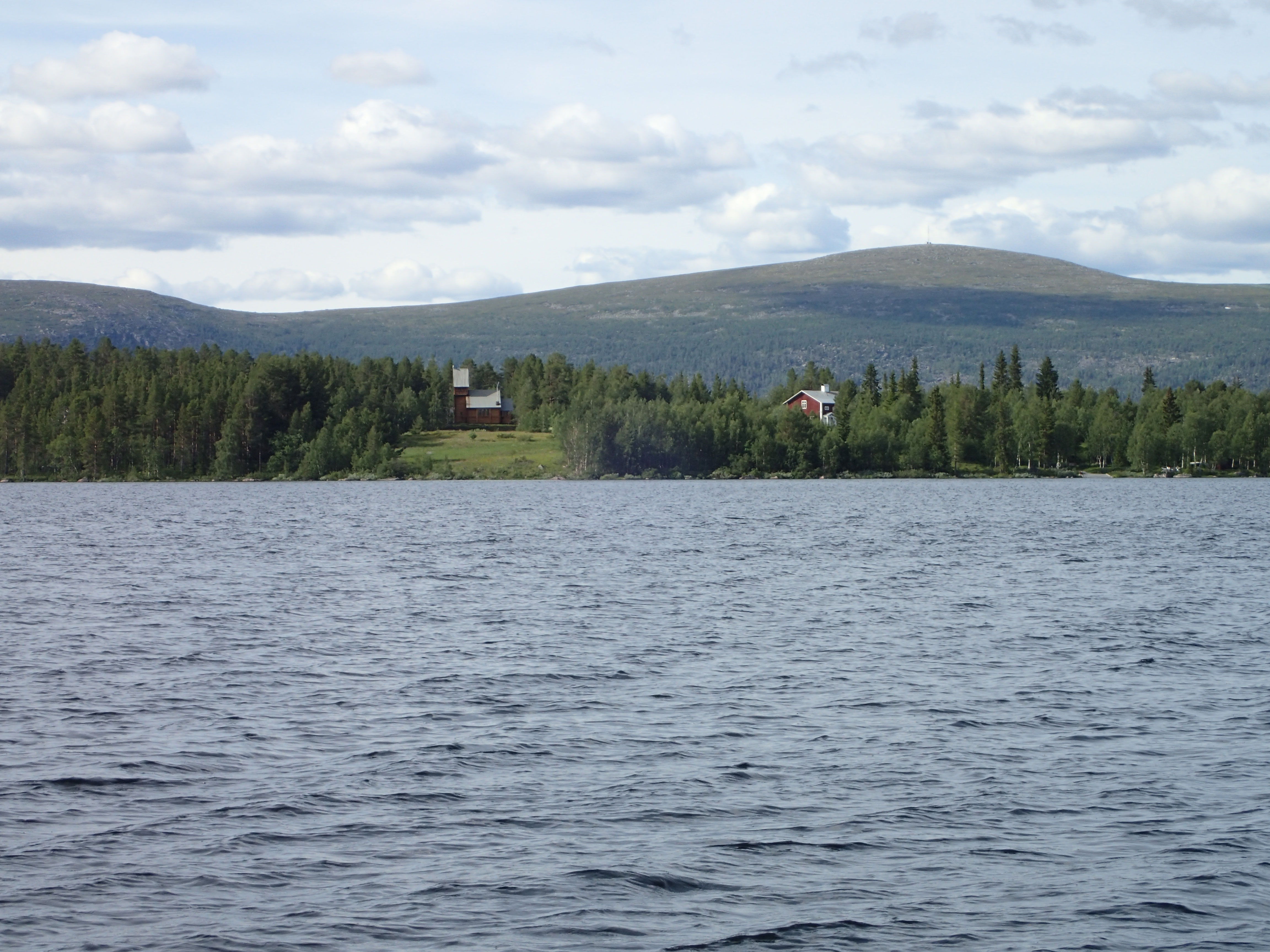 Norra Bergnäs chapel on the other side of the bay Bergnäsviken, part of lake Sáddájávrre in the Piteälven river.